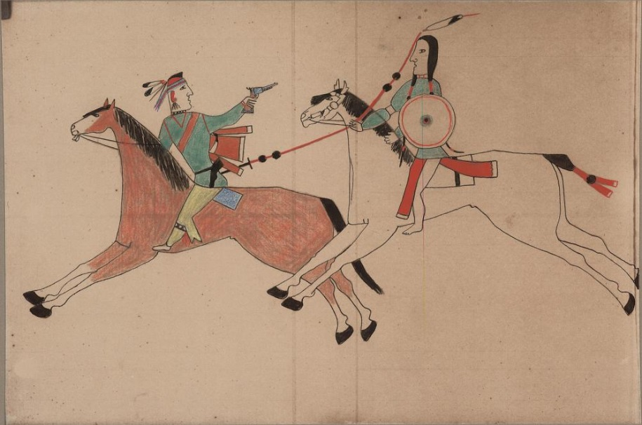 Anonymous ledger drawing by a Cheyenne scout at Fort Reno. The drawing shows a battle between a Cheyenne warrior (right) and Osage or Pawnee warrior (left), 1906.